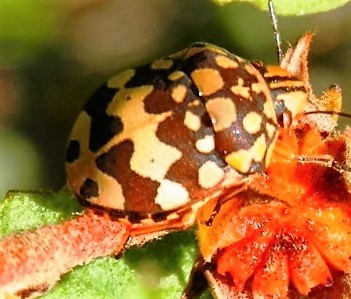 Orsilochides scurrilis. Species of insect.